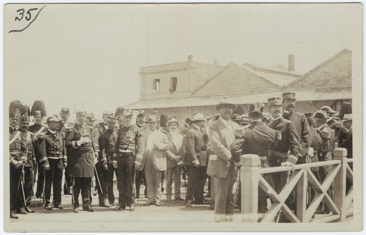 Postcard or print of a photo taken during the Mexican Revolution.